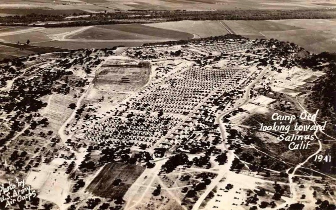 Fort Ord, California U.S. Army post in 1941